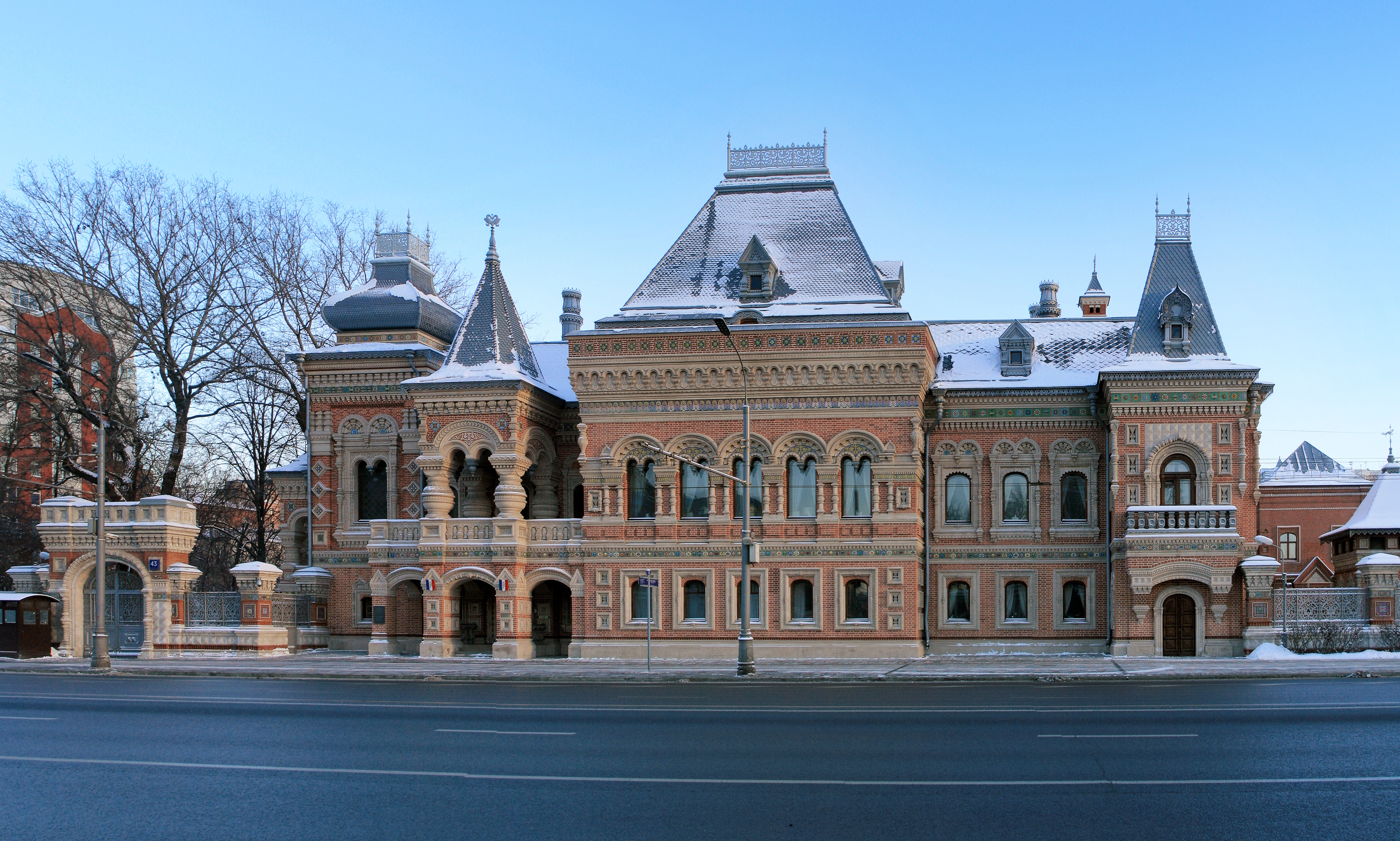 Main house of French Ambassador residences in Moscow, Russia